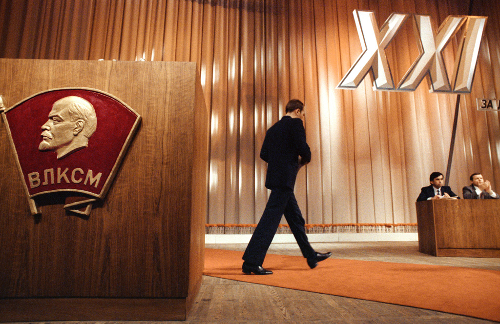 “21st Komsomol congress: Viktor Mironenko steps down”. Komsomol (Young Communist League) First Secretary Viktor Mironenko retreating from the platform of the 21st YCL congress after voicing his self-resignation